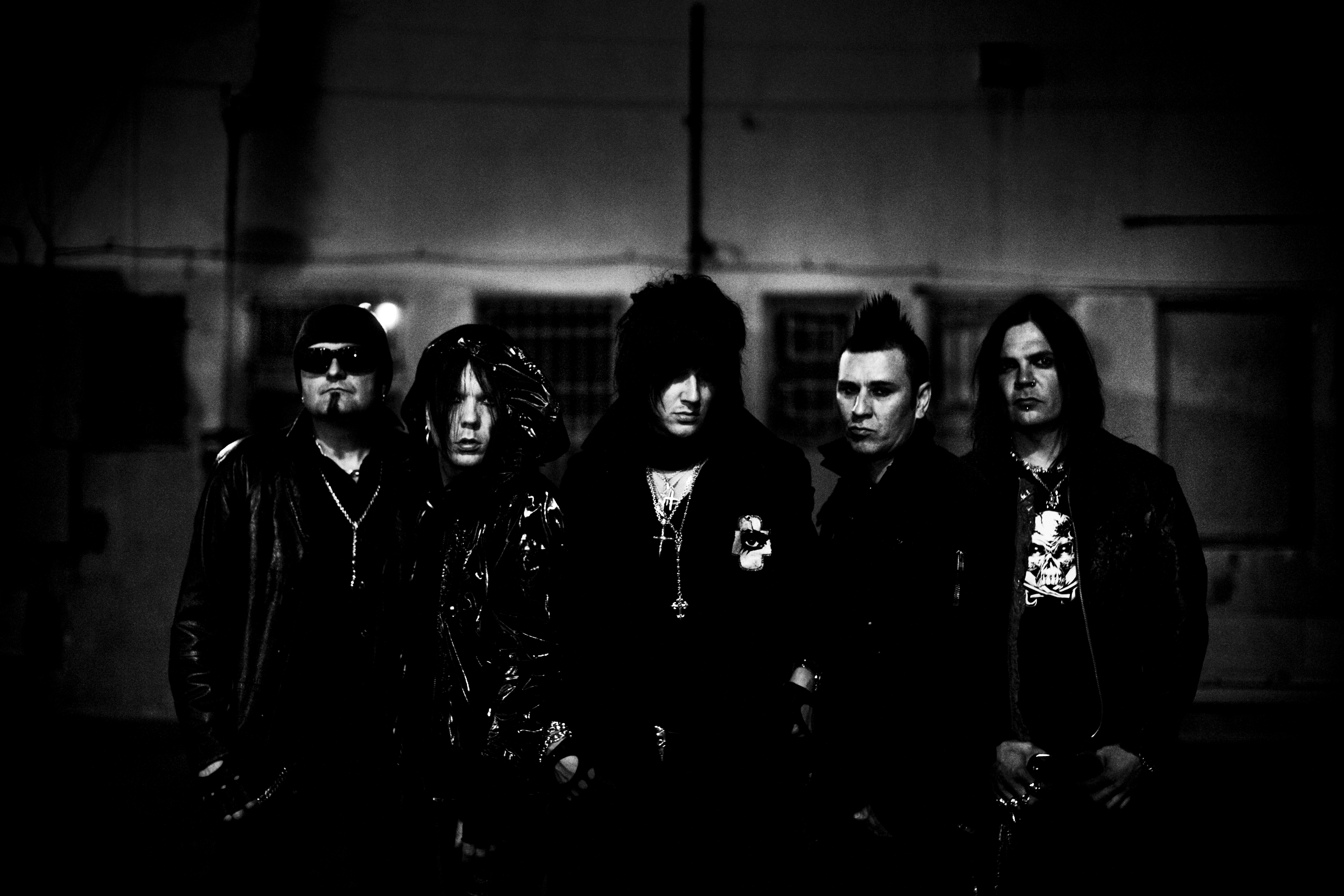 The 69 Eyes